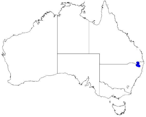 Boronia inflexa occurrence data downloaded from Australasian Virtual Herbarium 10 April 2019 using This download included all the environmental overlay fields and ALA's data checking fields including "cultivated / escapee", "outside expert range for species", "latitude is negated", "coordinates are transposed", "taxon misidentified", "habitat incorrect for species", and "suspected outlier" (over 730 fields). Deleting occurrences for which any of the above were true, 46 specimens with coordinates were deleted. However this did not remove all obvious spatial outliers some of which were later removed by hand.. On examining the interactive AVH map for Boronia inflexa a further specimen NE 50497 was excluded as a suspected outlier